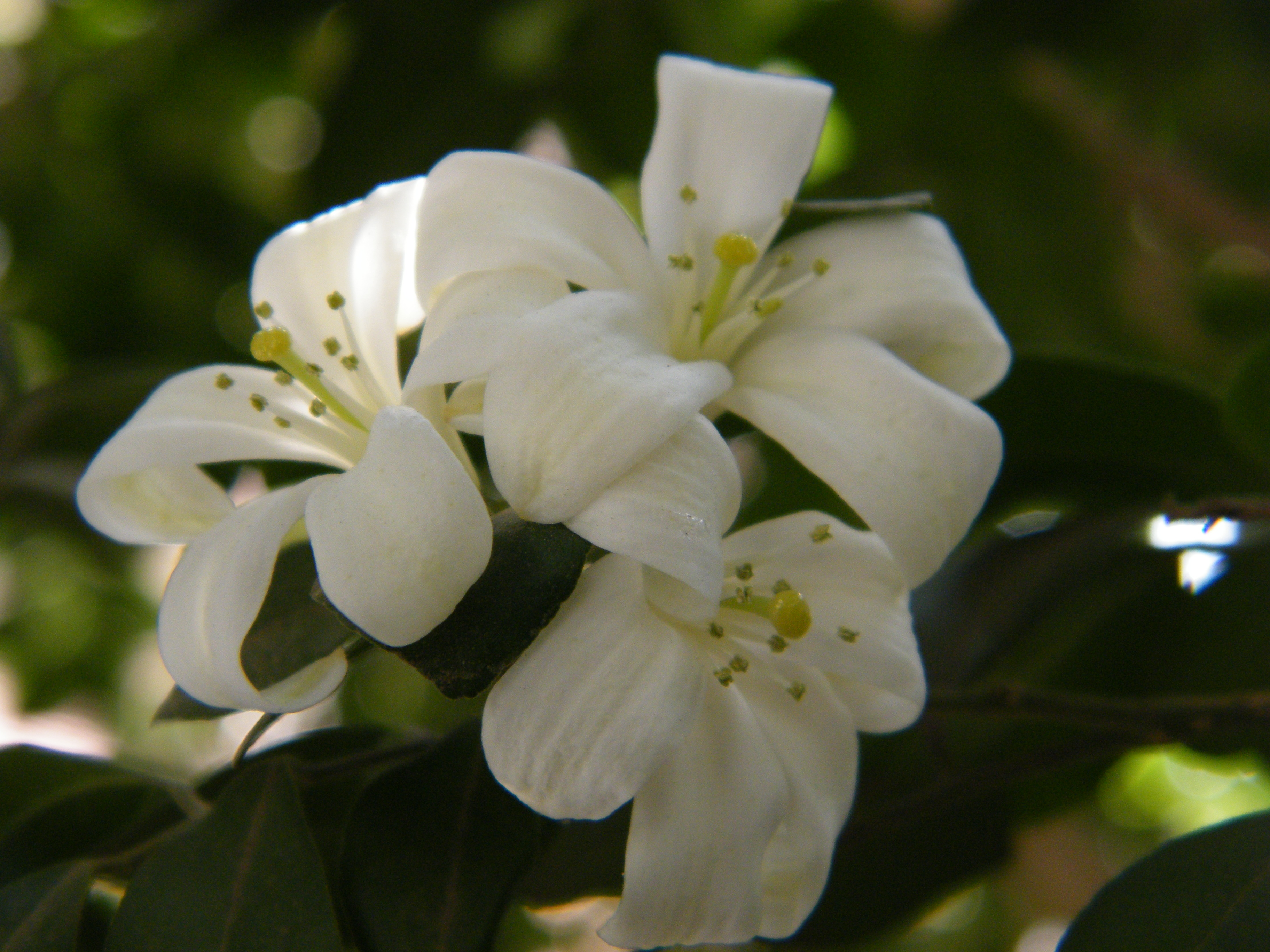 Orange Jasmine, Murraya paniculata